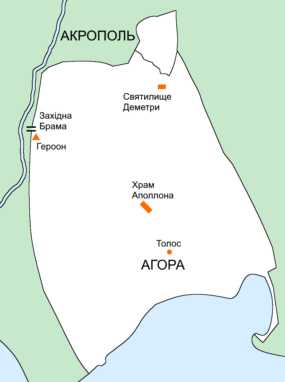 Map of Eretria in the Archaic Time